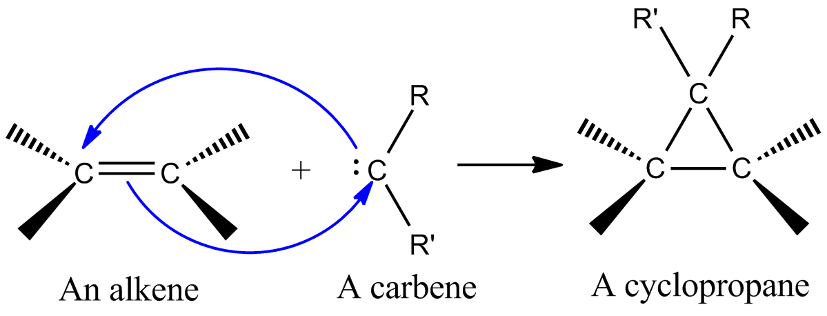 scheme of carbene addition to alkene